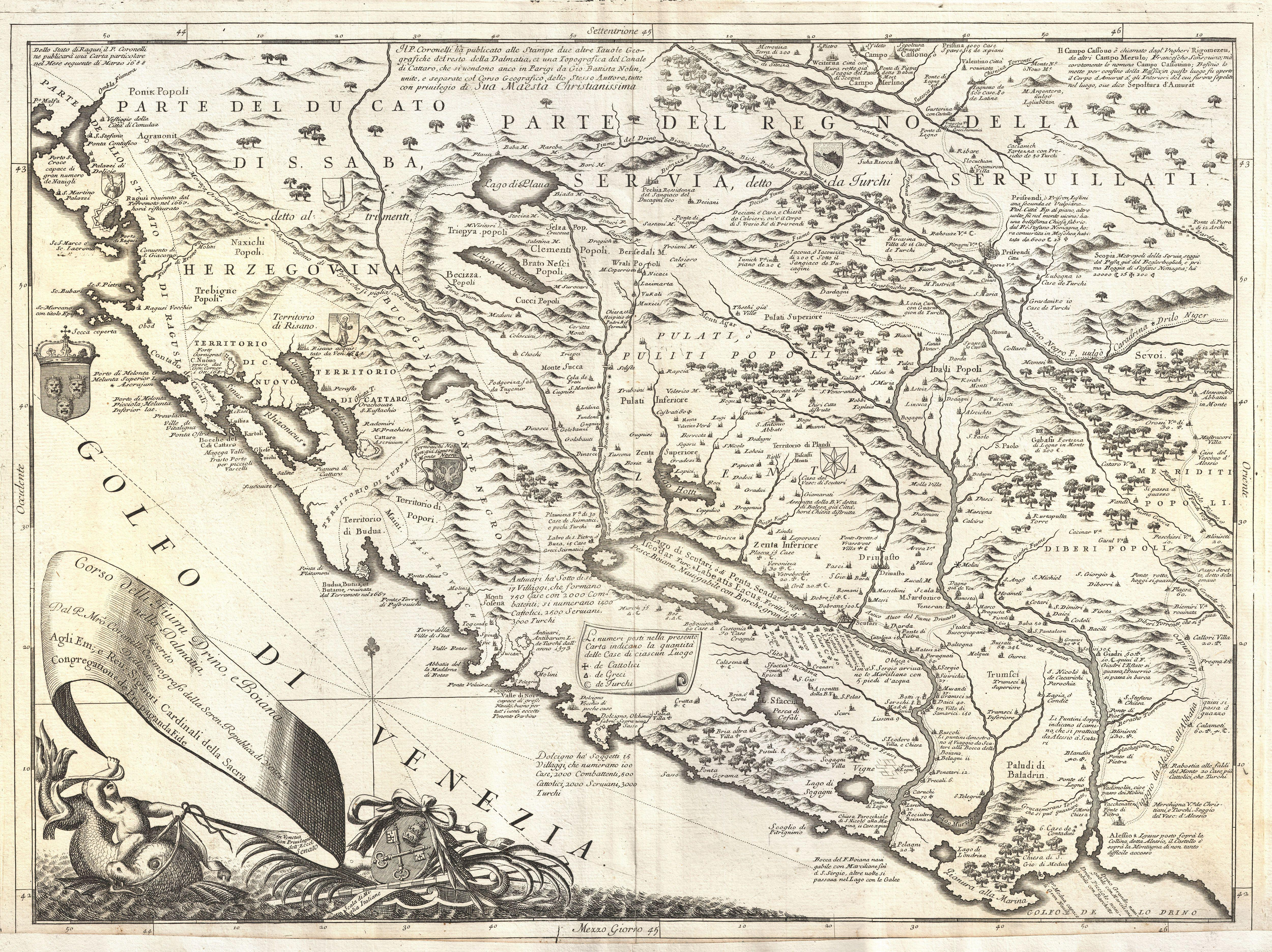 This is Vincenzo Maria Coronelli's 1690 map of Montenegro. Covers the Dalmatian coast from Dubrovnik to Gjiri i Drinit, including all of modern day Montenegro as well as parts of adjacent Croatia, Albania, and Bosnia Herzegovina. Most of Coronelli's maps of the Dalmatian coast were intended to highlight the military victories of the Venetian Republic over the expansive Ottoman Turks. No exception, this map features notations throughout referring to various military battles for control of this hotly contested region. As a whole this is a splendid example of Coronelli's distinctive style at its finest, with detailed engraving, historical notes, armorial vignettes, and an elaborate title cartouche complete with a cherub riding a sea monster. Published for inclusion in Coronelli's stupendous 1690 Atlante Veneto .